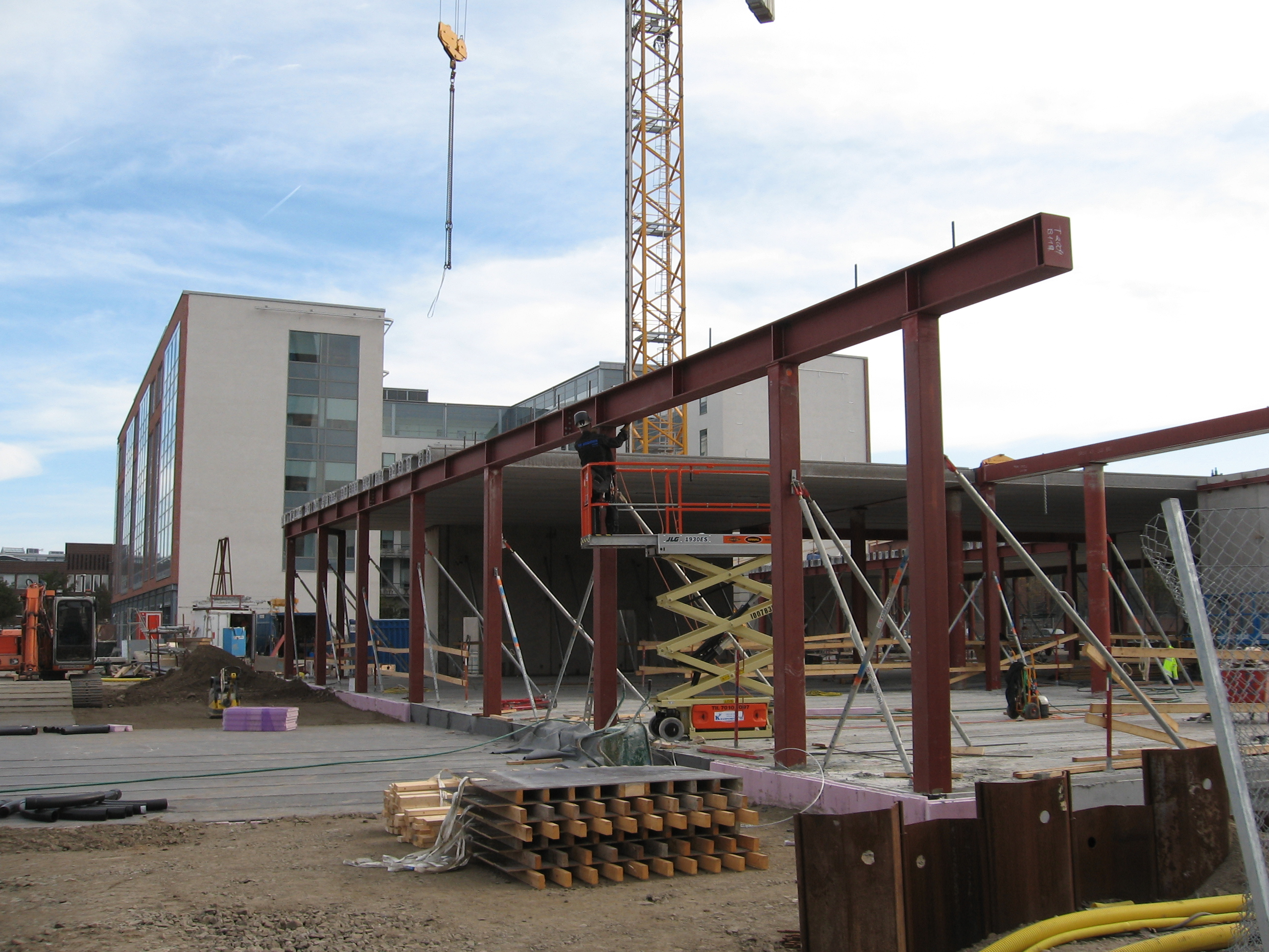 Framing Skrovet 5 Malmö